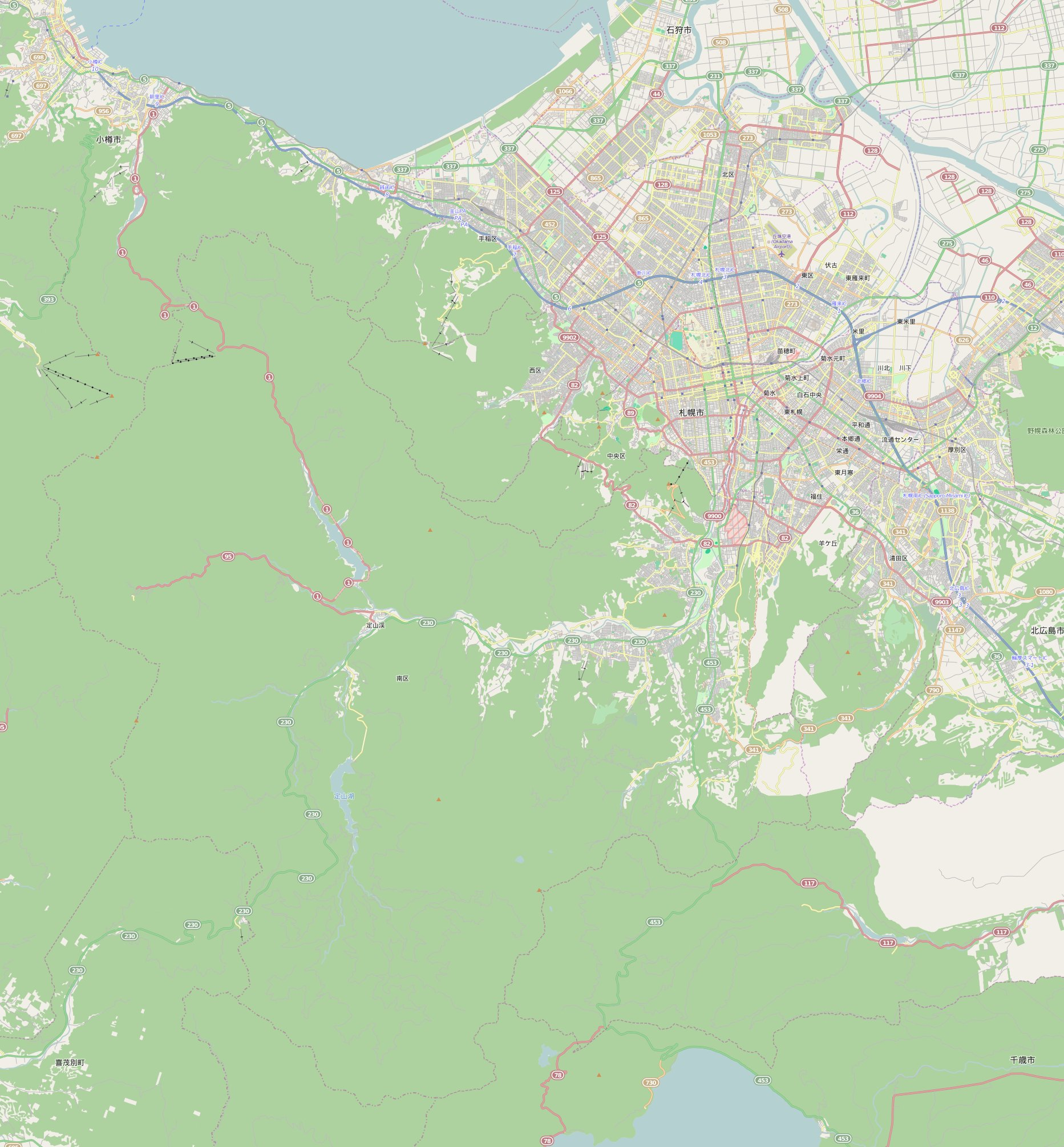 Map of Sapporo, Japan This map of Sapporo was created from OpenStreetMap project data, collected by the community. This map may be incomplete, and may contain errors. Don't rely solely on it for navigation.